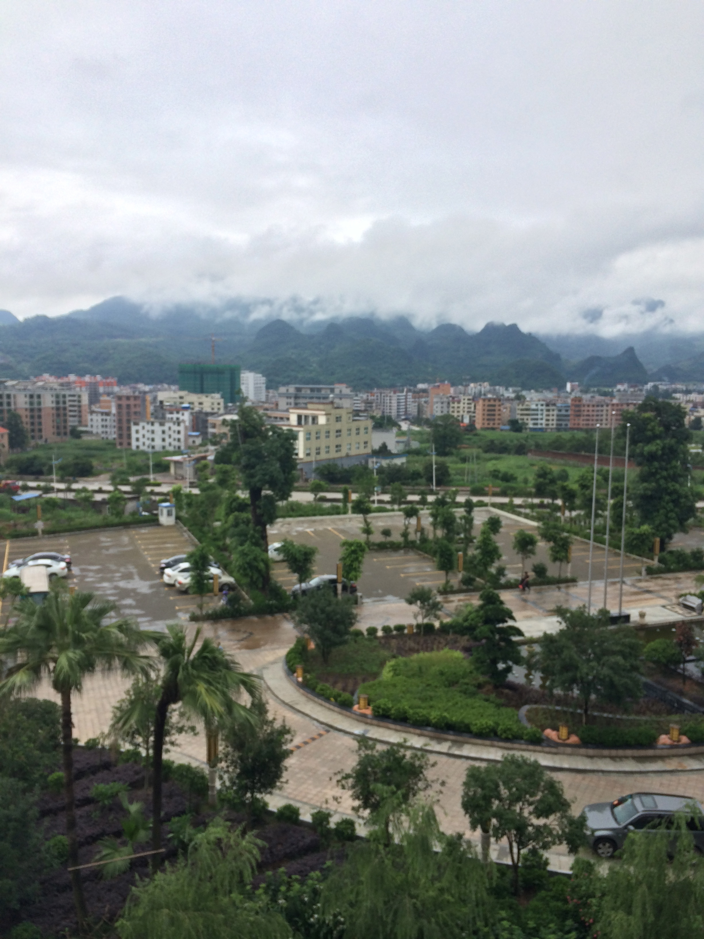 Lienchow, Kwangtung 粵語: 廣東連州